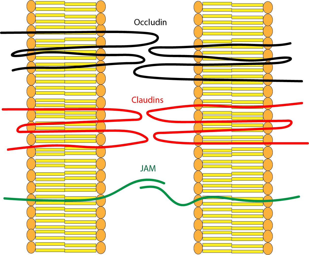 Depiction of the three main transmembrane proteins found in tight junctions: occludin, claudins, and JAM proteins.